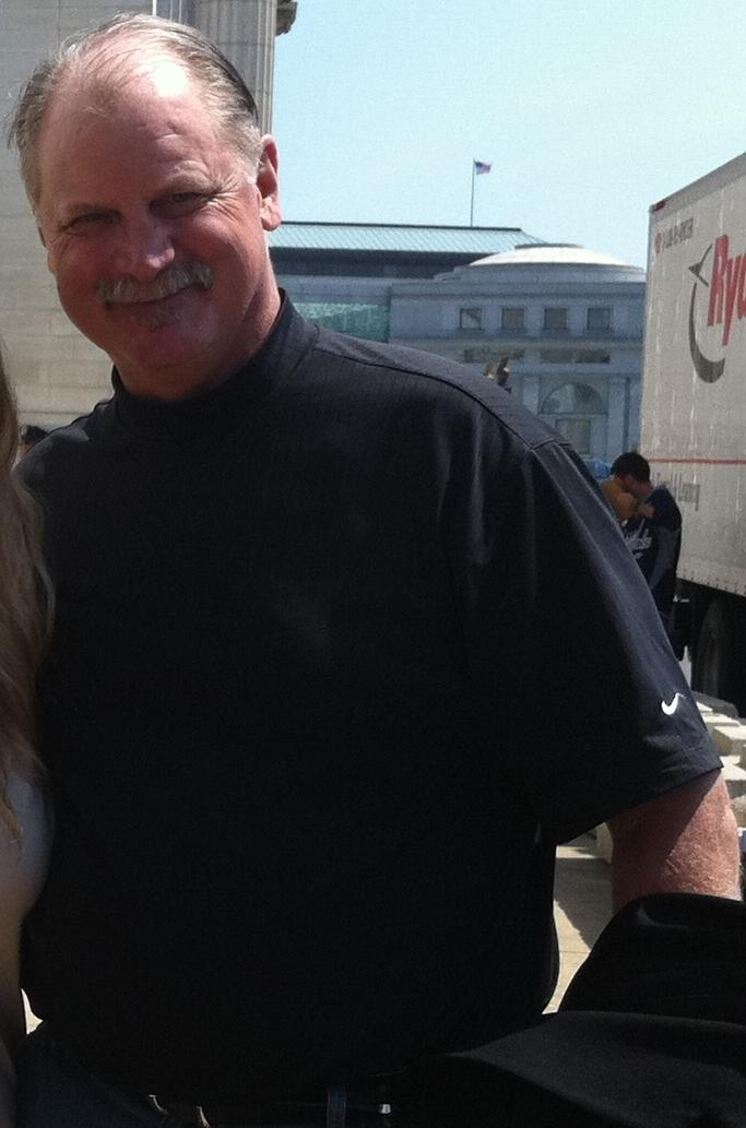 Rod Langway signing authographs at Union Station (Washington, D.C.)